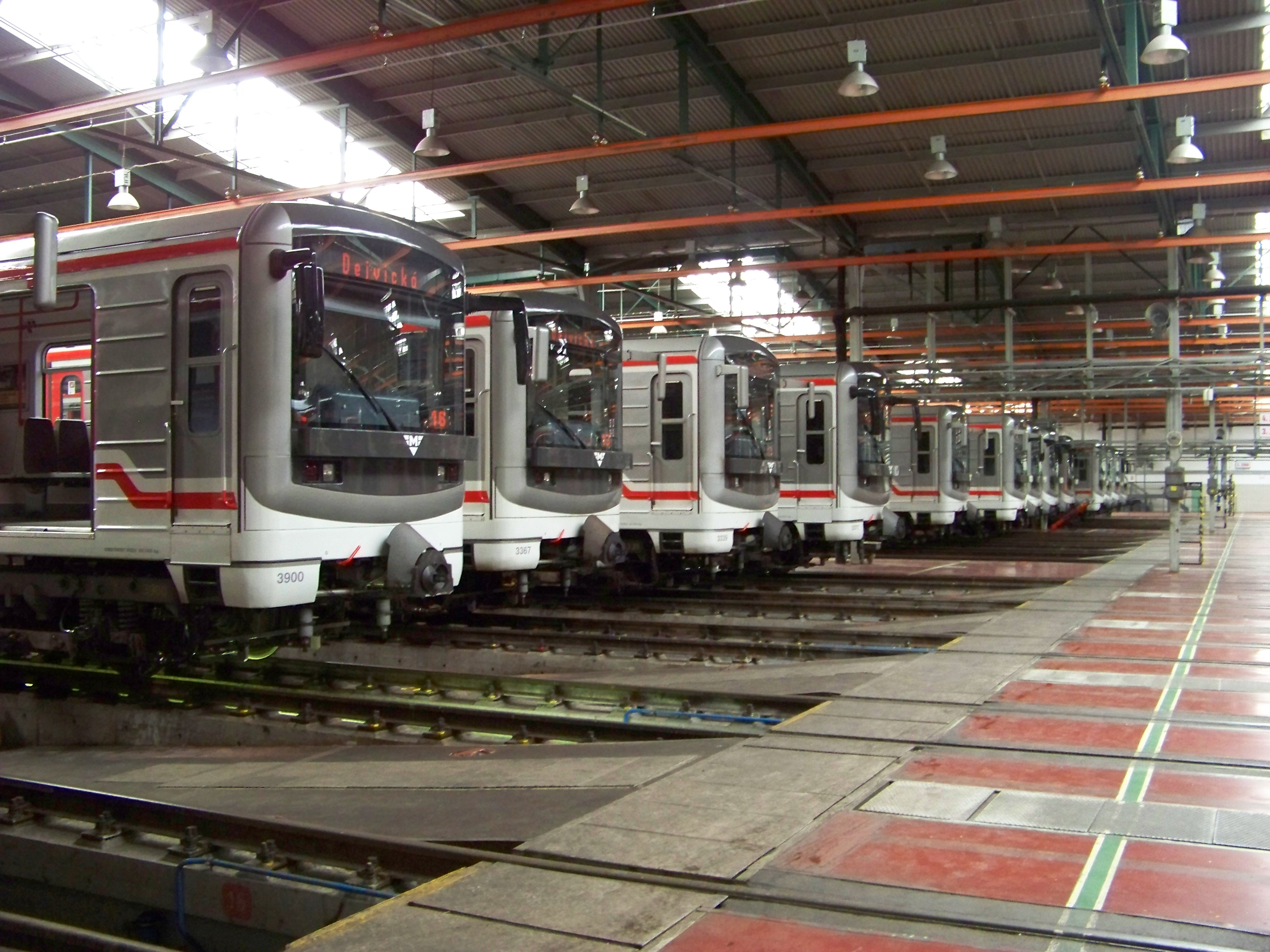 Prague-Strašnice, Czech Republic. Hostivař metro depot, open doors day. - Google Maps - Google Earth